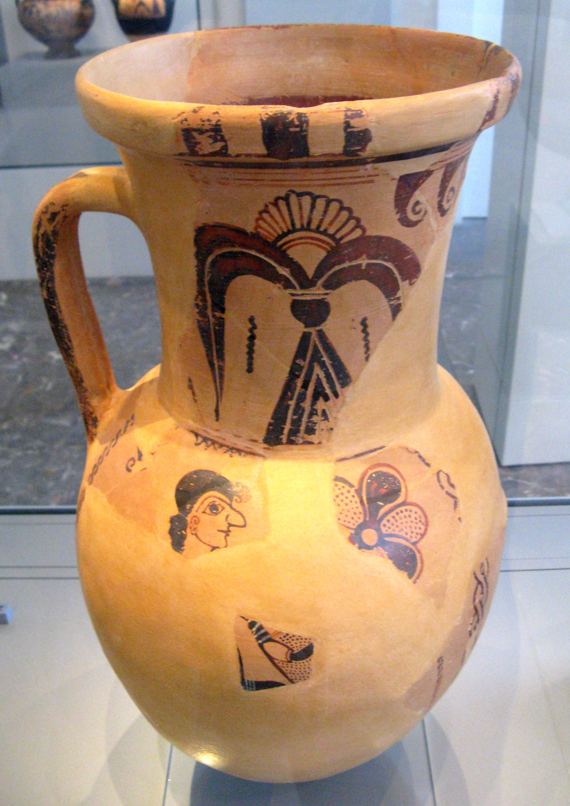 Protoattic amphora depicting Peleus giving the young boy Achill to the centaur Charon to educate him; from Aegina; ca. 660-650 B.C., attributed to the Ram-Jug-Painter; purchased for the ANtikensammlung Berlin in 1936.